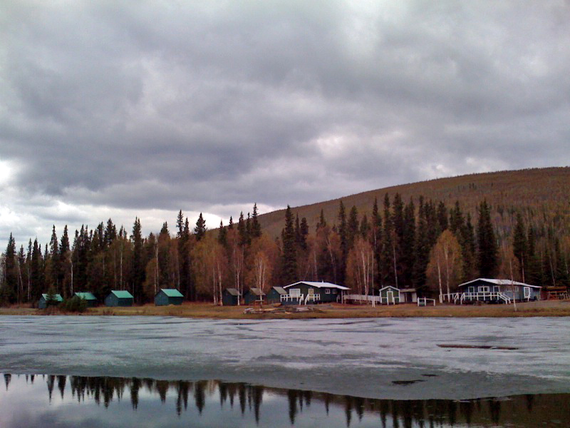 Twin Bears Campground in Two Rivers, Alaska, site of the Two Rivers checkpoint of the Yukon Quest sled dog race. Seen in spring 2009.